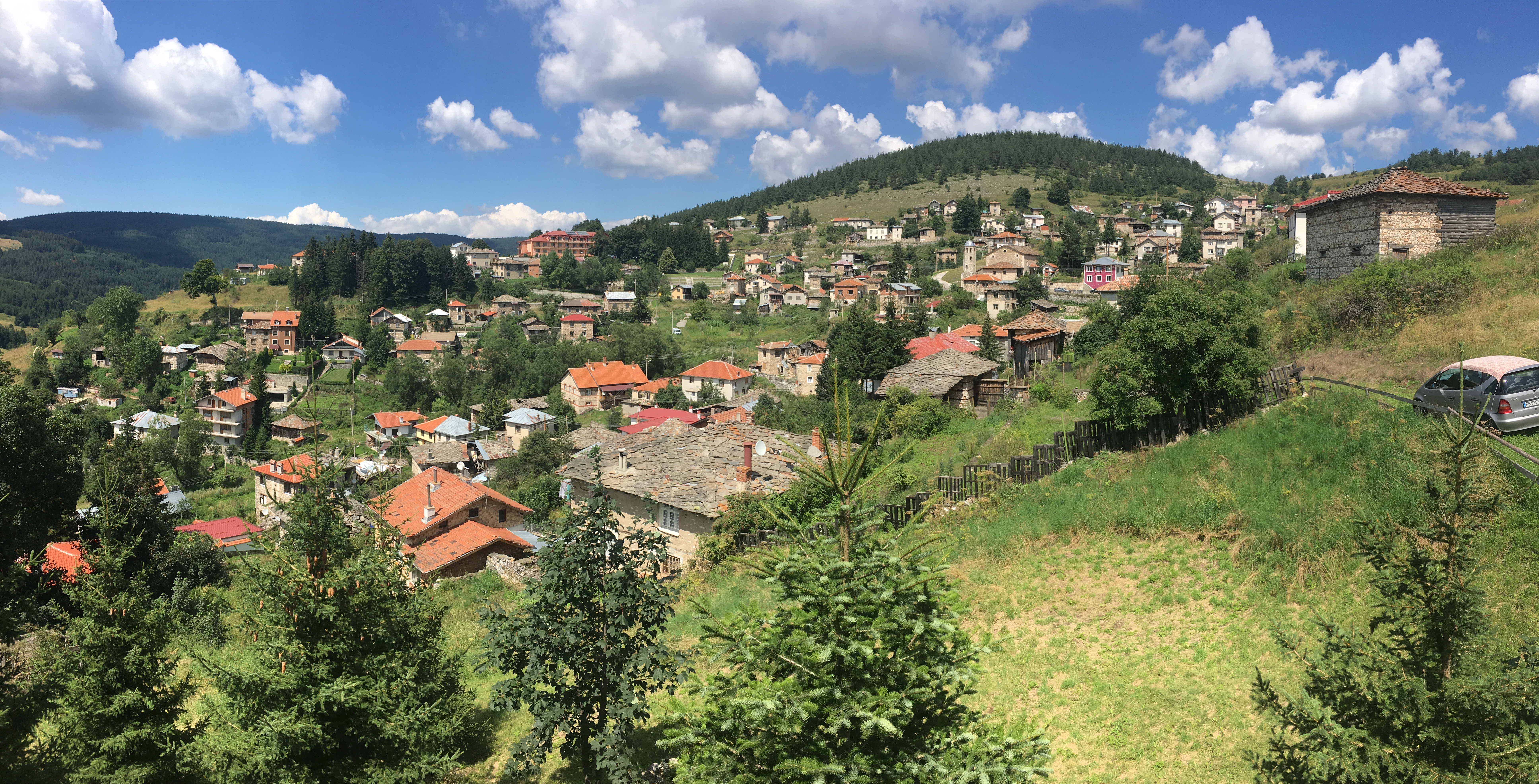 This is an image of the Rhodopean village Lilkovo